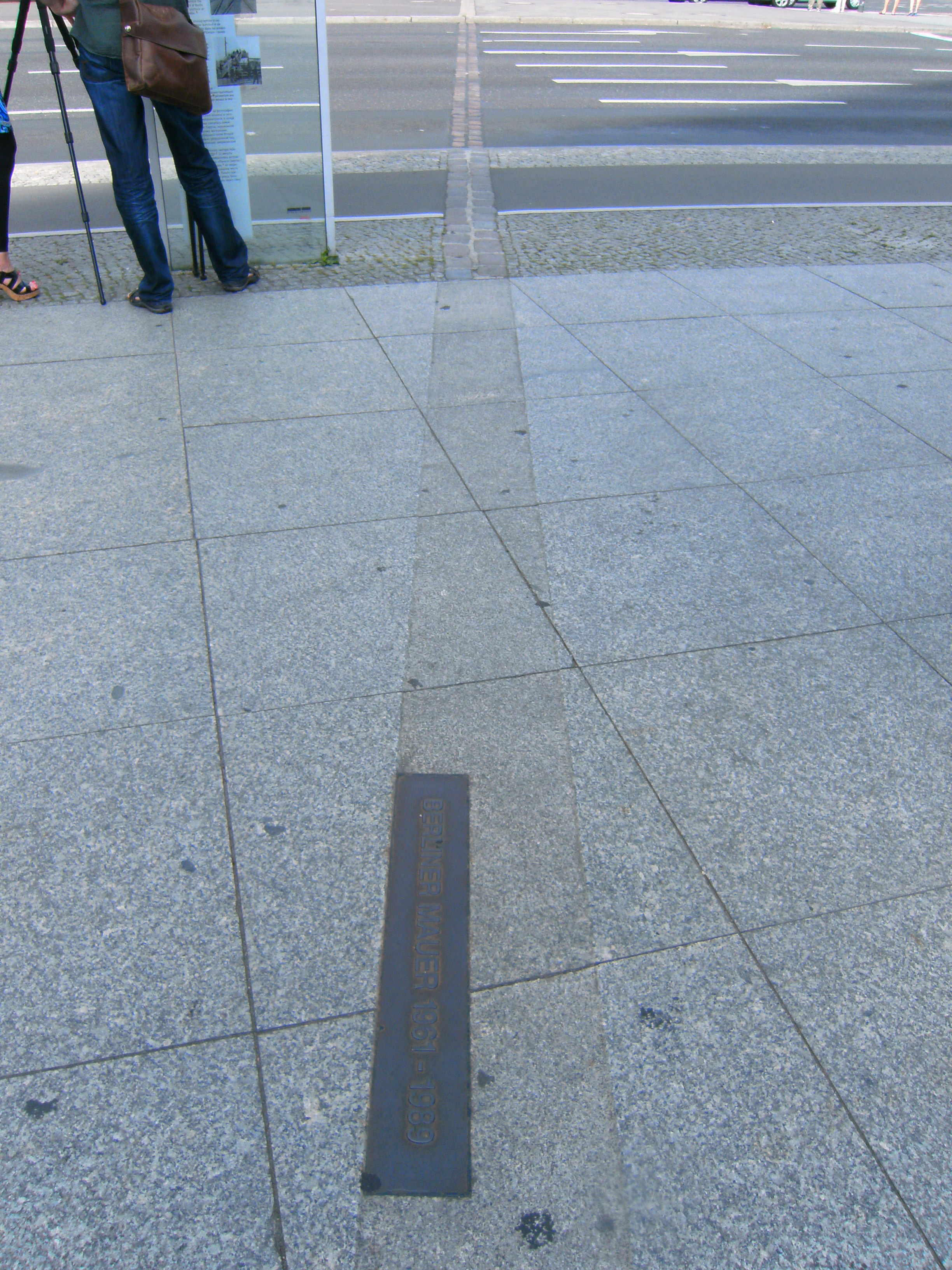 Line in the street Potsdamer Straße and in the pedestrian area of Potsdamer Platz to remember enclosure of West-Berlin by the Berlin Wall.